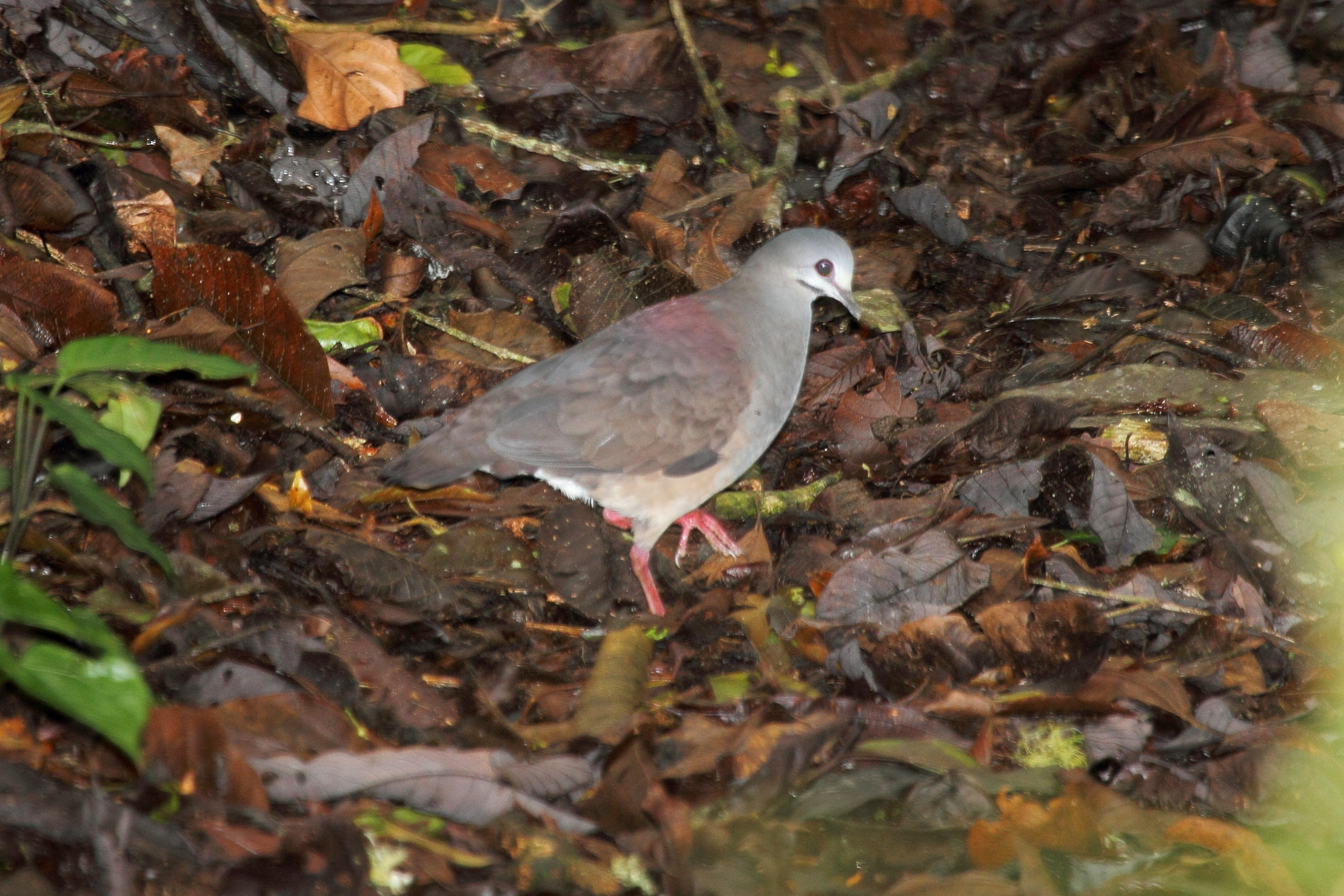 Purplish-backed Quail-Dove (Geotrygon lawrencii). Photographed at Rancho Naturalista, in Costa Rica.